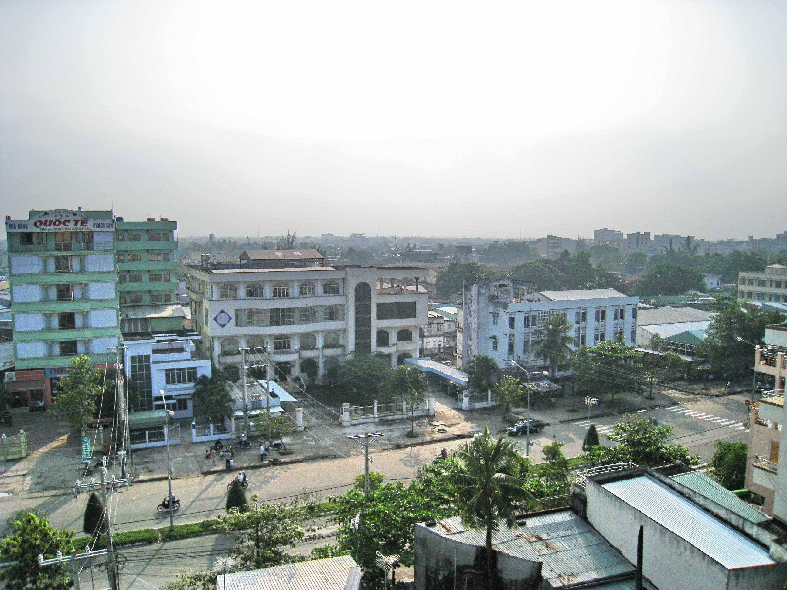 Phan Ngoc Hien street in downtown Ca Mau